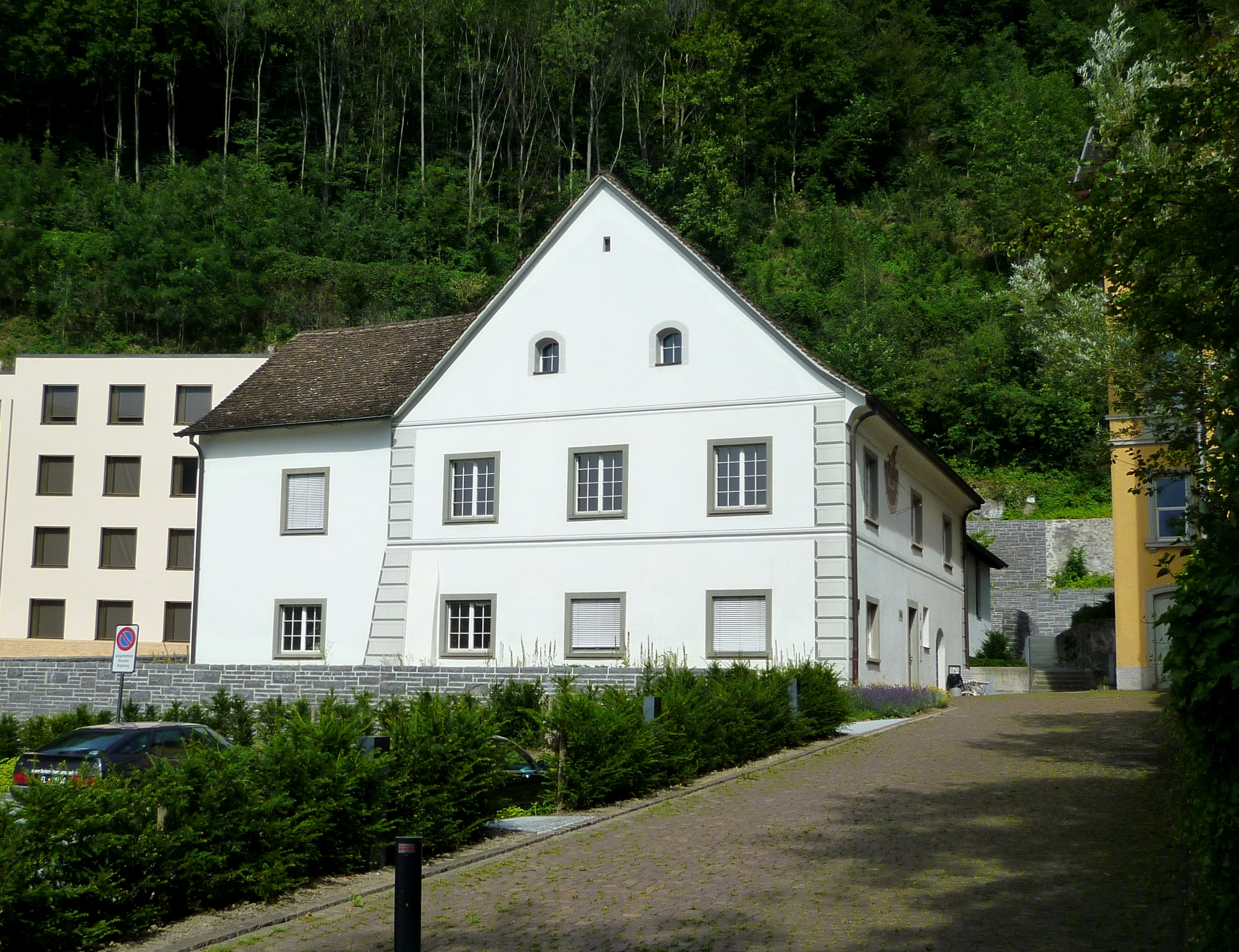 birth house of Josef Gabriel Rheinberger in Vaduz, principality of Liechtenstein